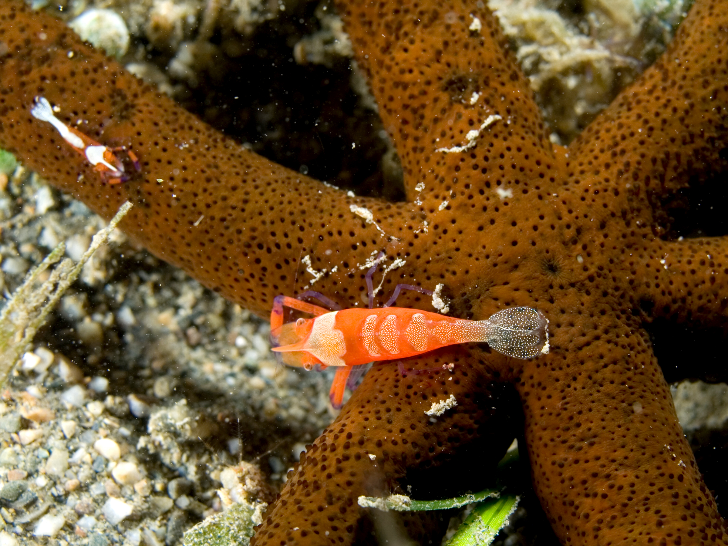 Periclimenes imperator (Emperor shrimp) on Echinaster luzonicus (Starfish)